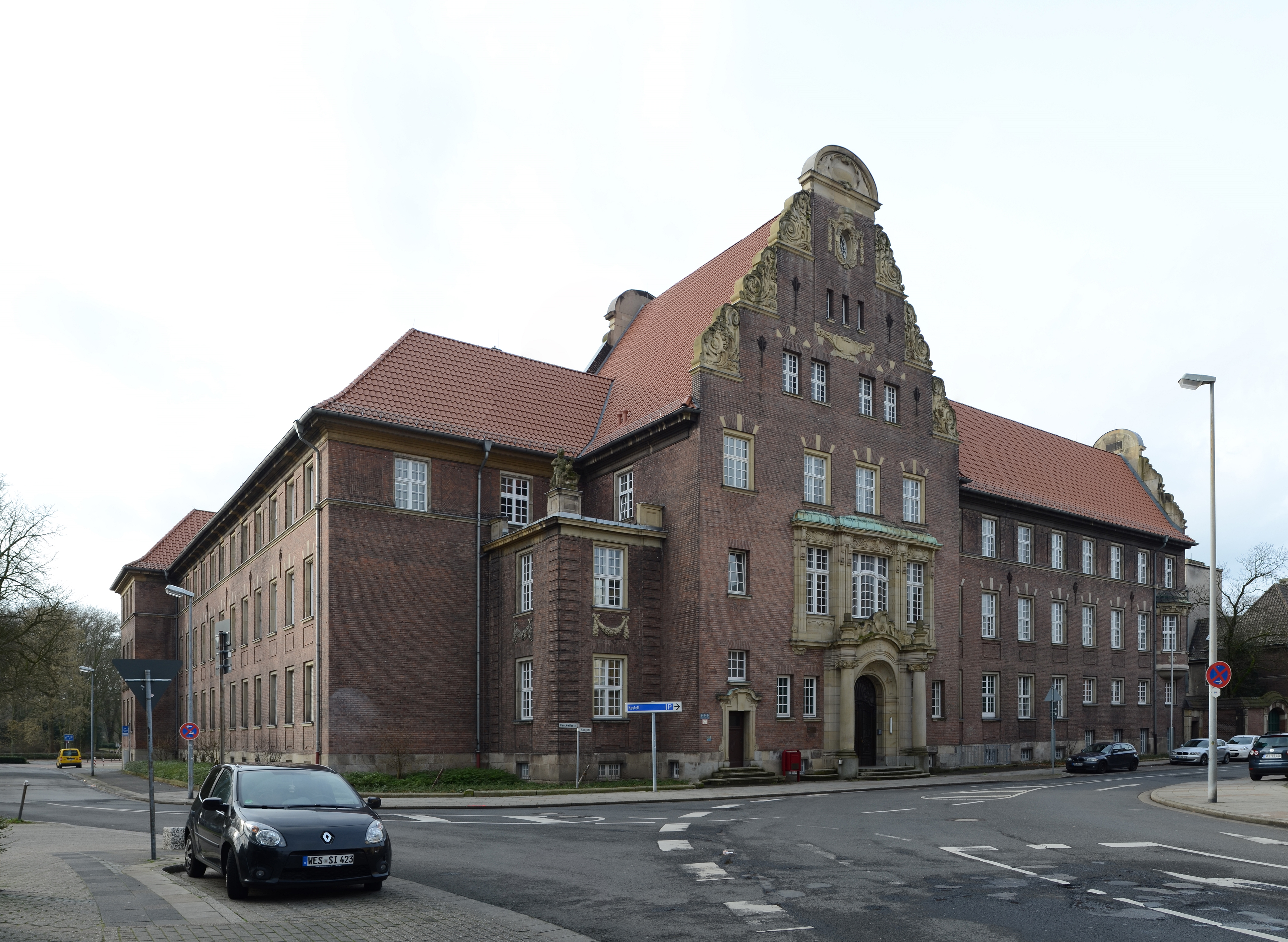 Moers (North Rhine-Westphalia, Germany) – local courthouse – panoramic view This image shows a heritage building in Germany, located in the North Rhine-Westphalian city Moers (no. 63). This photograph was taken with a Nikon D7000.